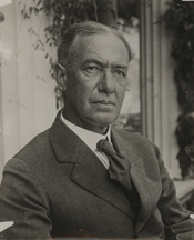 Former United States Representative from California William Kent.